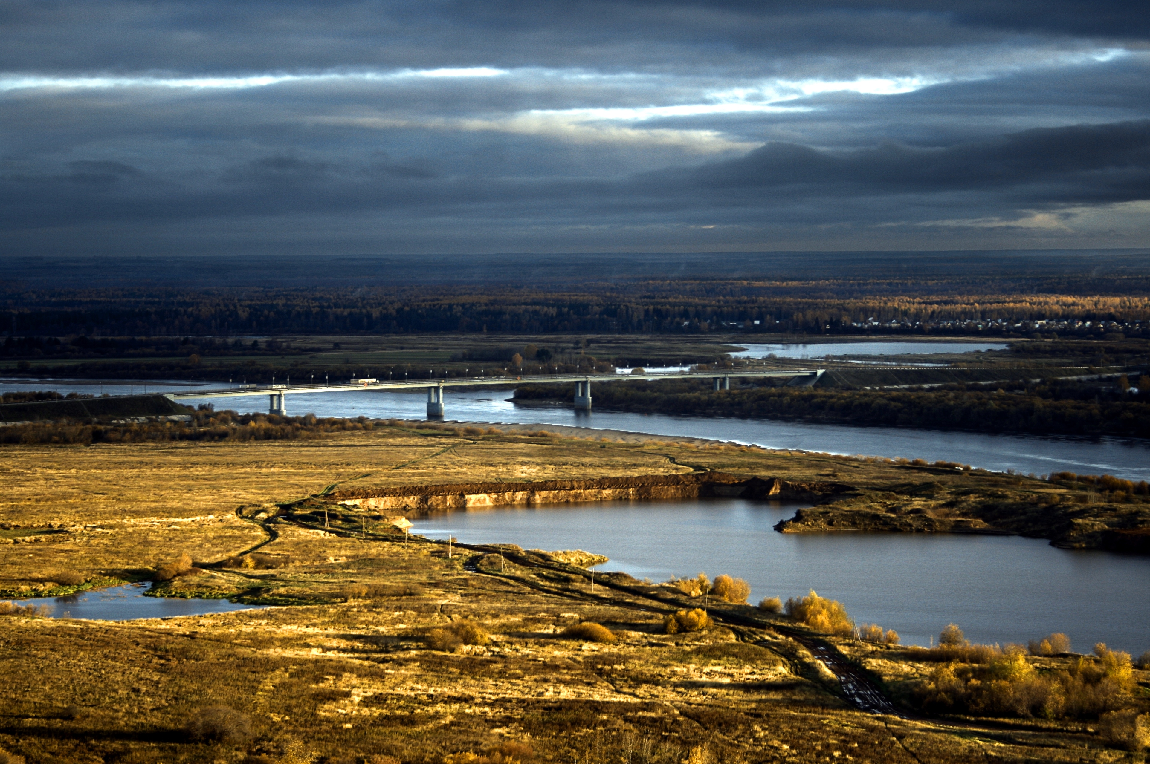 New bridge in Kirov city